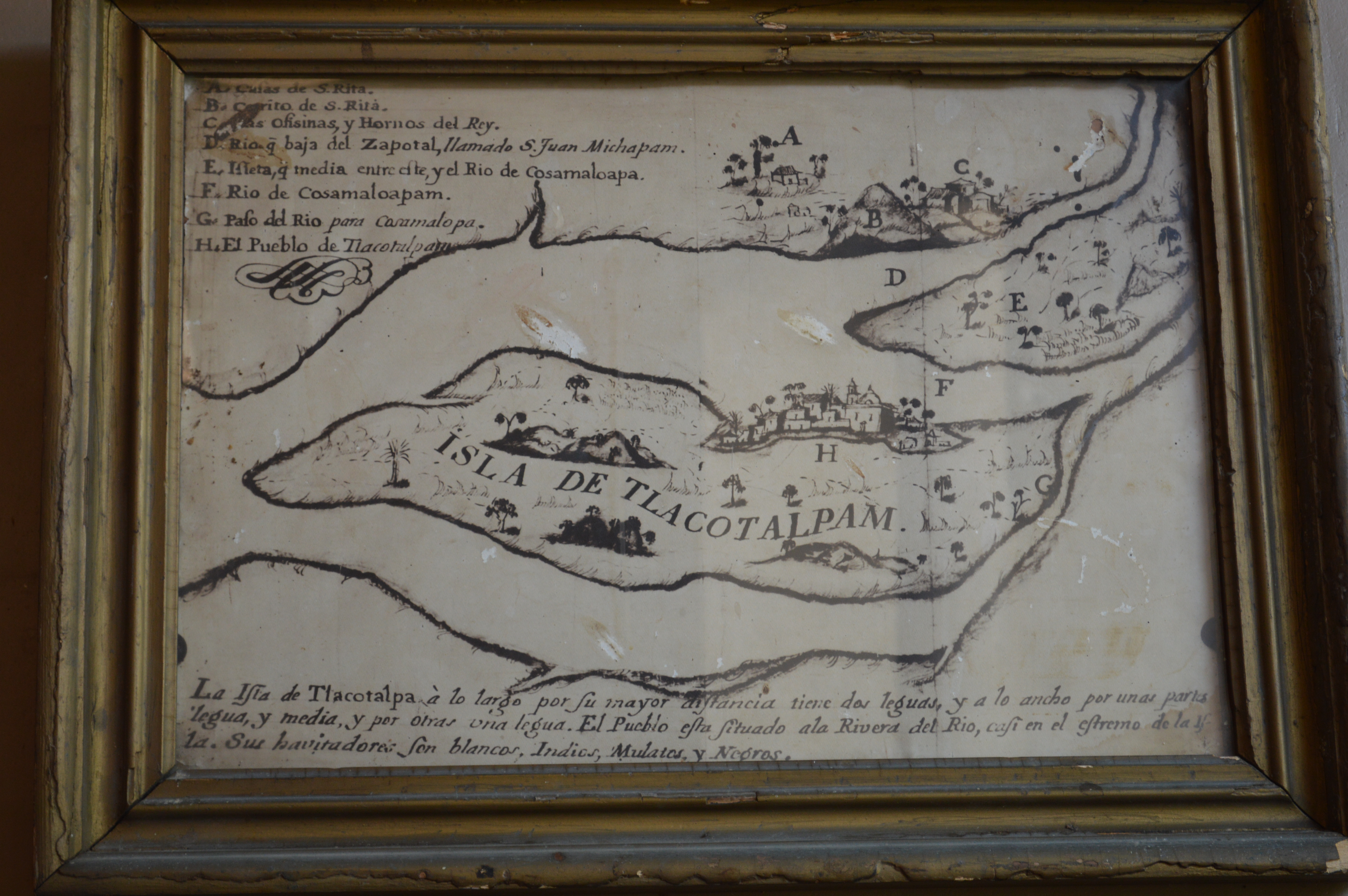 colonial era map showing Tlacotalpan as an island at the Salvador Ferrando Museum in Tlacotalpan, Veracruz, Mexico